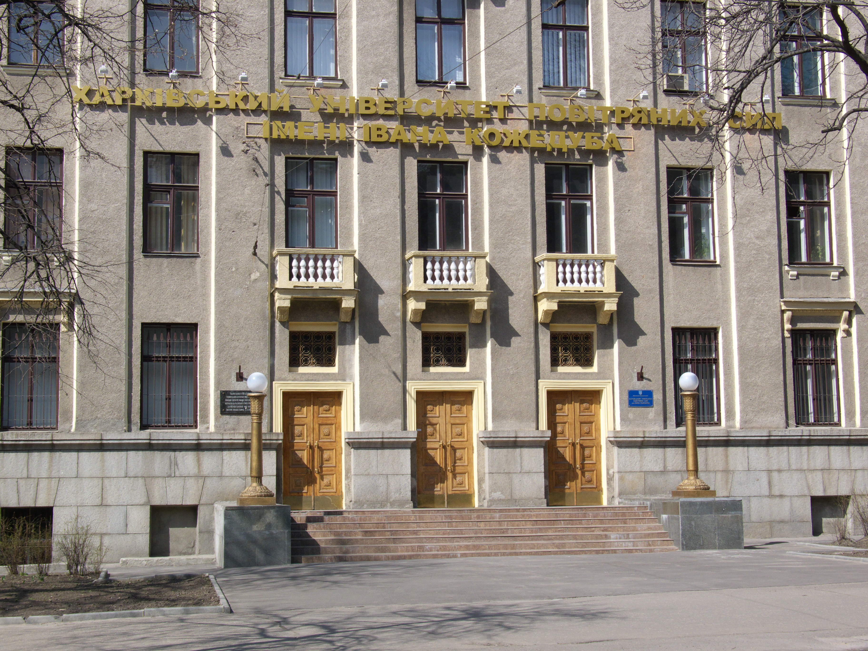 Kharkov air force university 02